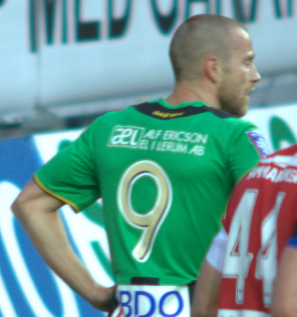 GAIS player Joel Johansson.